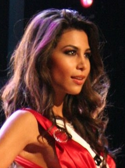 Jessica Jordan Burton, Miss Bolivia 2007, during rehearsals for the Miss Universe 2007 pageant in Mexico City, Mexico